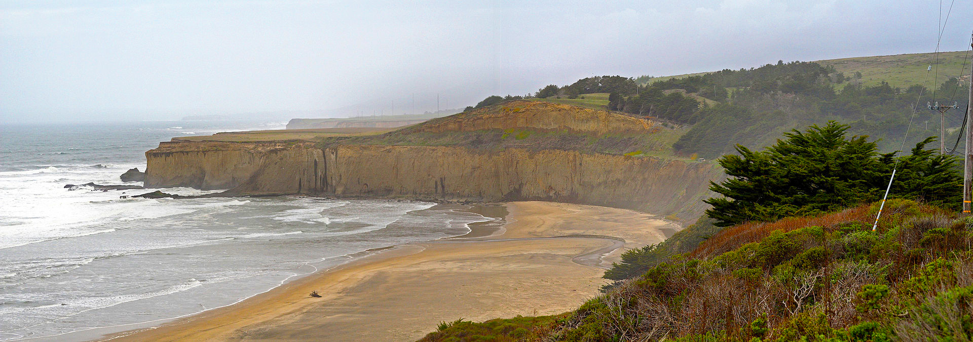 Landscape near Half Moon bay at Tunitas Creek Beach (Highway 1)